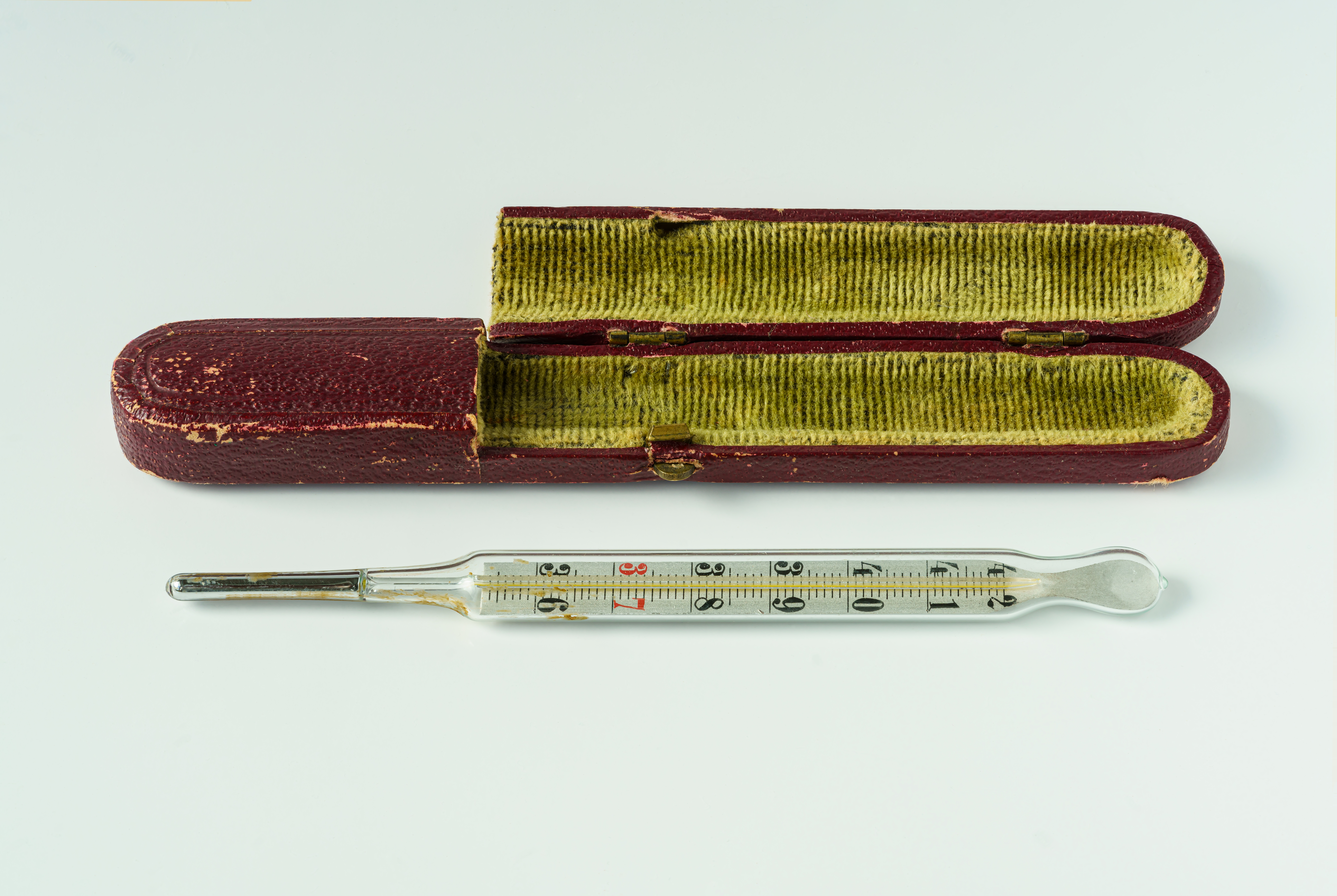 Medical mercury thermometer and corresponding velvet-lined protective cardboard box. Manufactured in Germany before 1920. Hand-painted numerals to be read when held in vertical position. Length of glass tube: 126 mm.